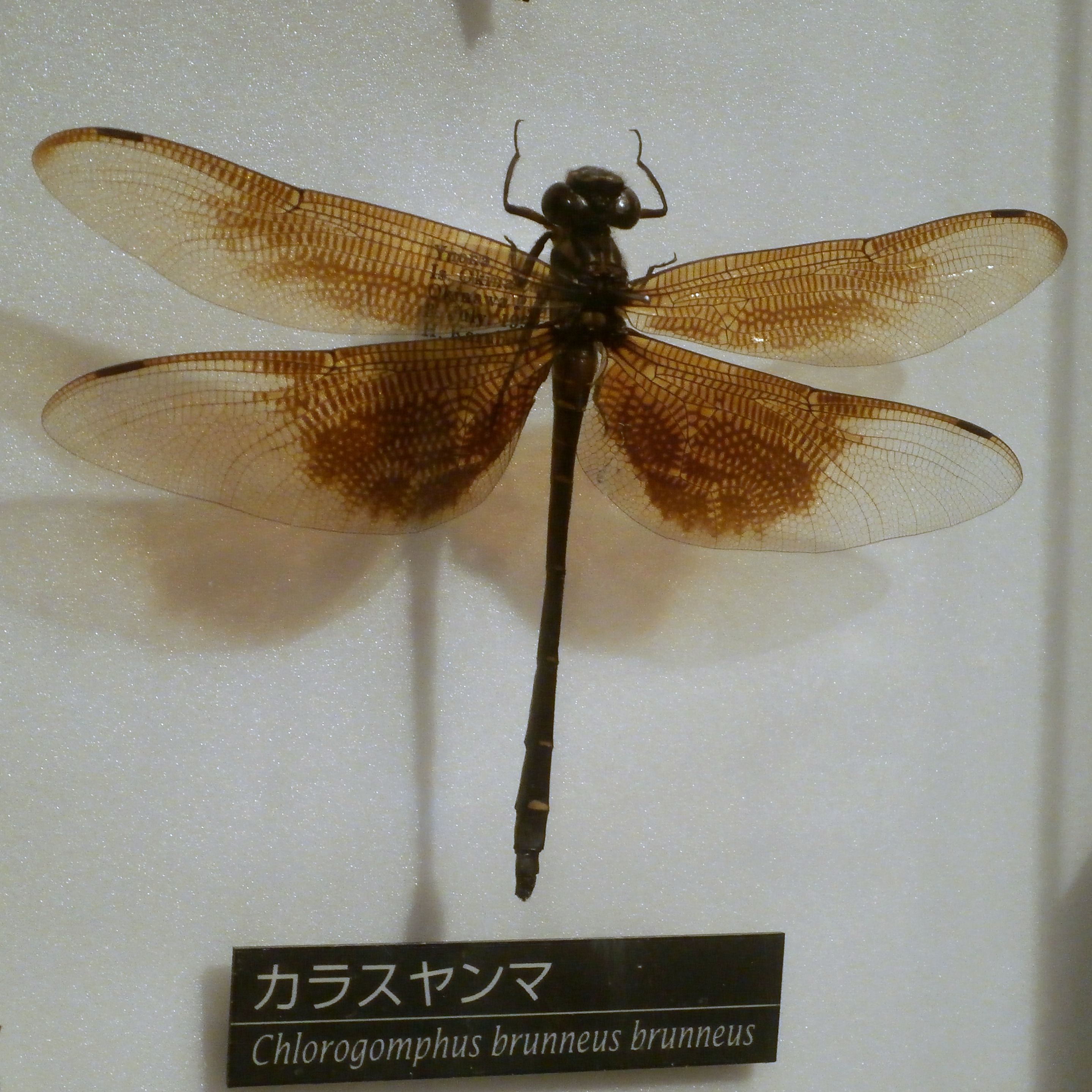 Female of Chlorogomphus brunneus brunneus. Exhibit in the National Museum of Nature and Science, Tokyo, Japan.